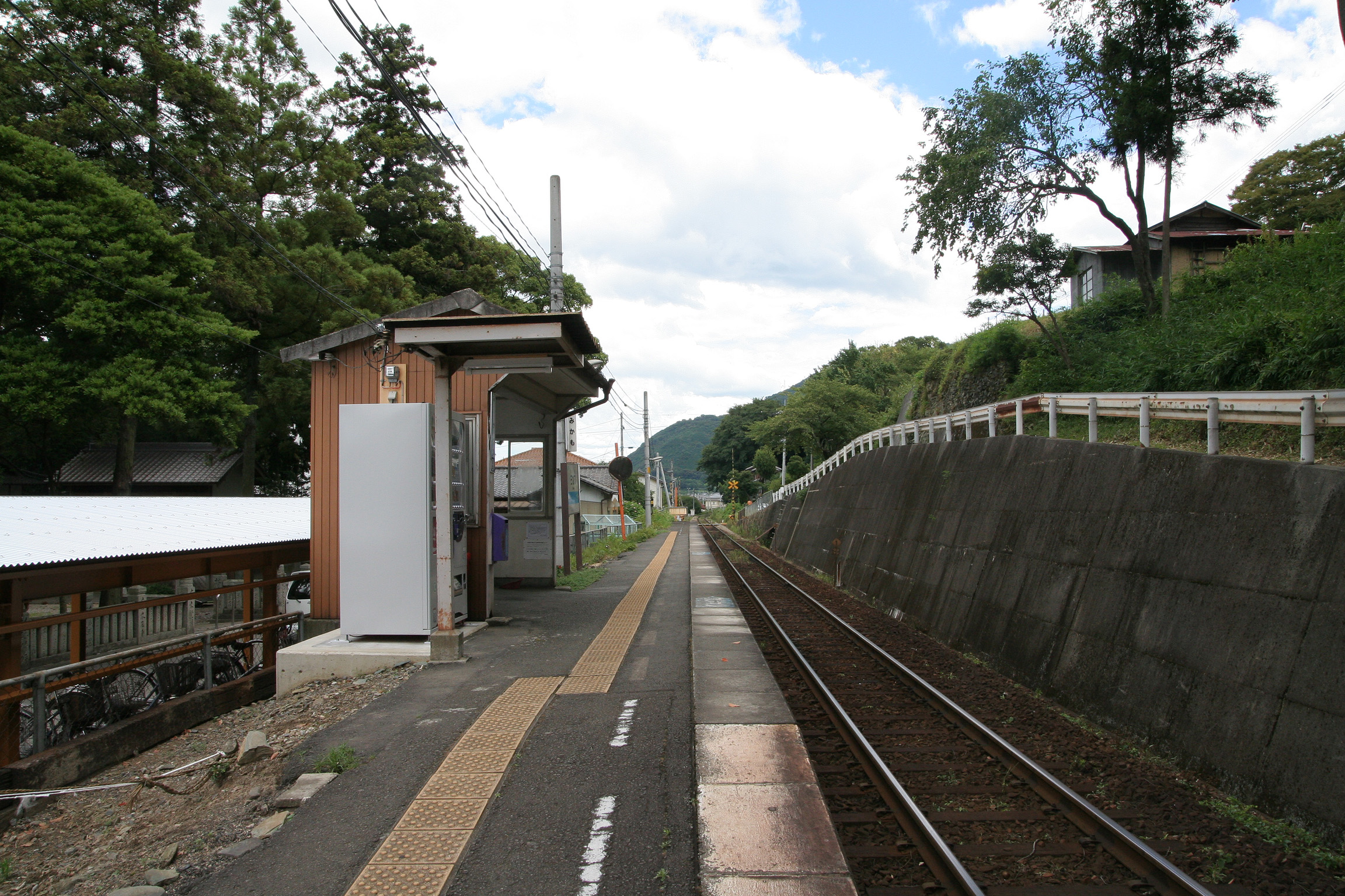 Shikoku Railway Tokushima Line mikamo Station enclosure